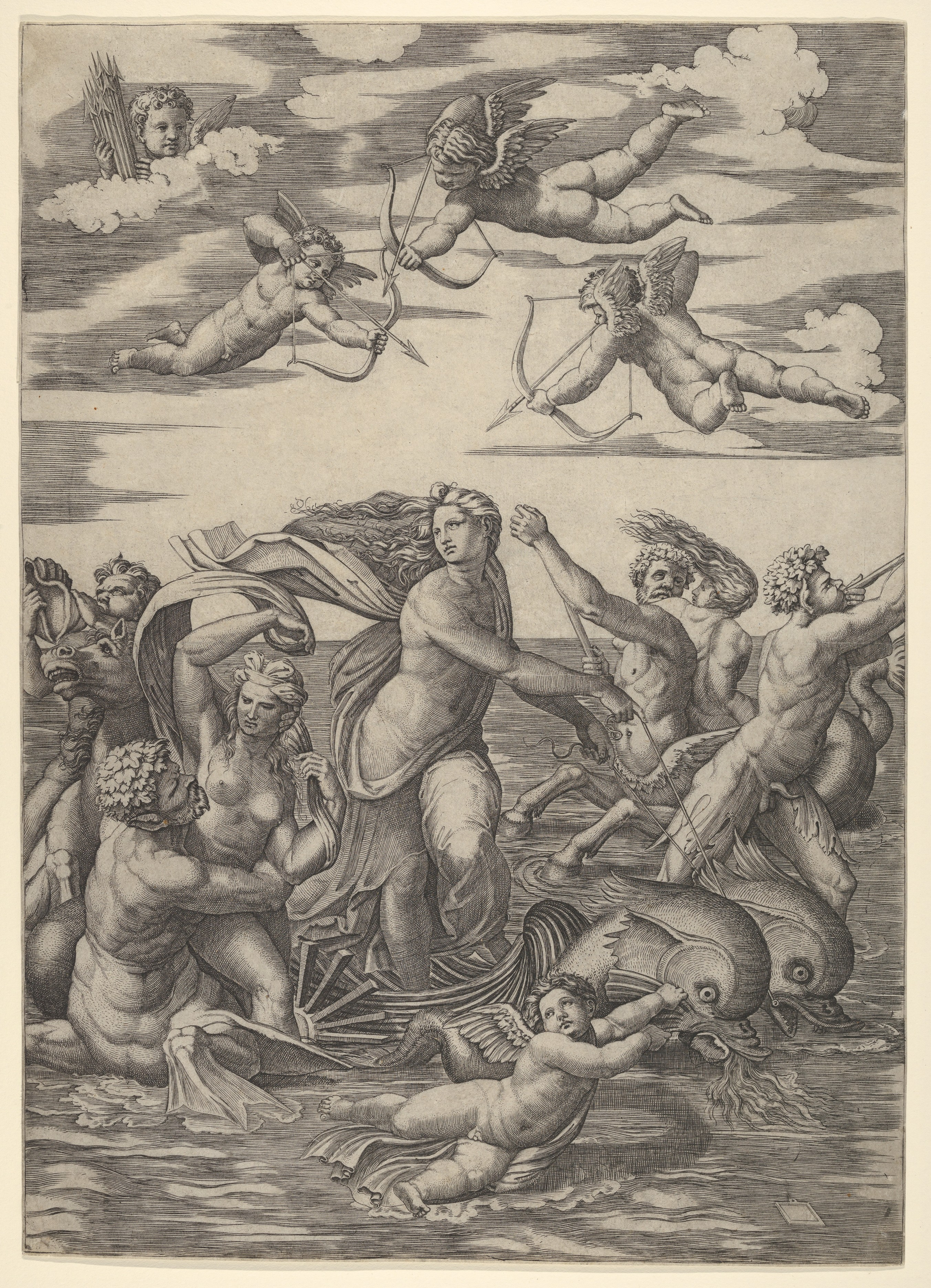 Print; Prints